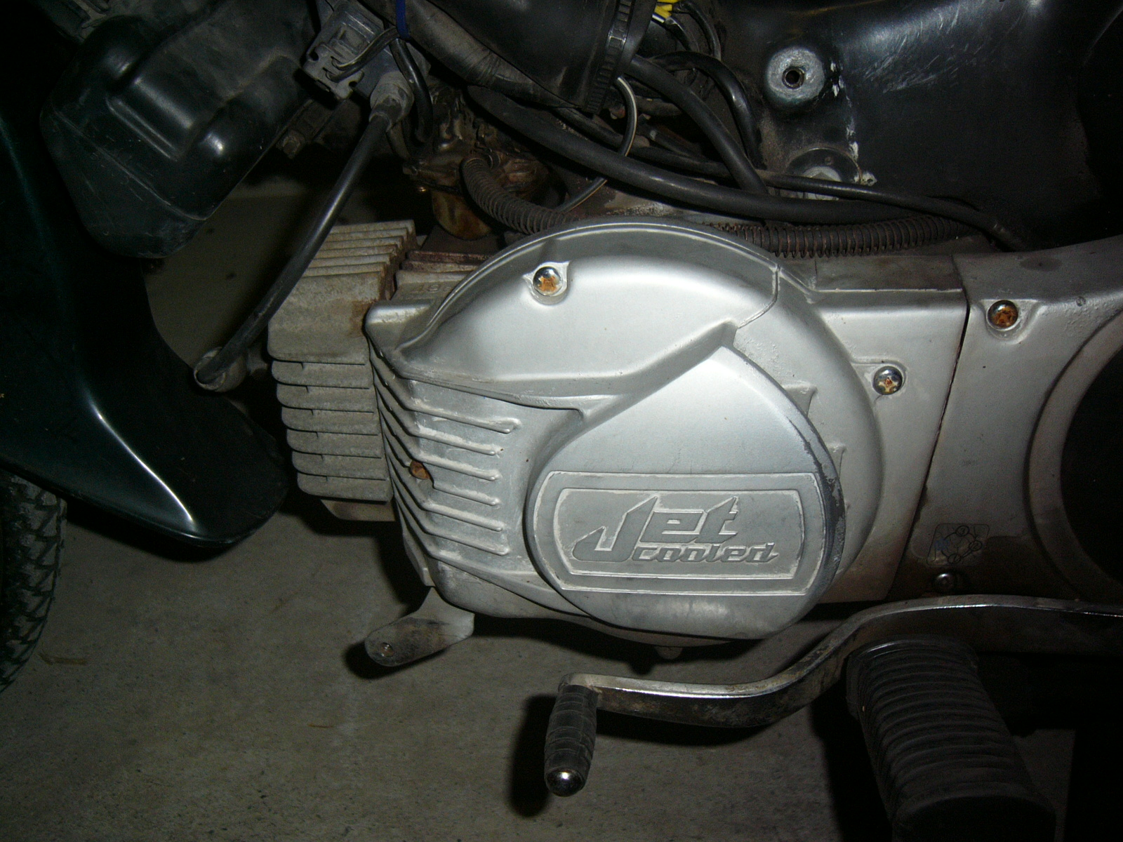 The "Jet Cooled" 2 strokes 50-cc single cylinder half-forcedly-cooled engine of Suzuki and RC50 (BA13A). It inhales from the ventilation fan with whom the flywheel of the engine left-hand side side was equipped, and cools a cylinder compulsorily. The cylinder head is an air cooling without blower by the wind under run.